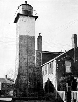 Newburyport Harbor Rear Range Light (Essex County, Massachusetts) Object location42° 47′ 38.04″ N, 70° 48′ 25.92″ W